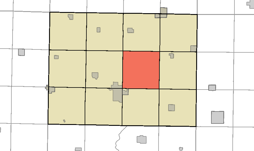 This is a map of Humboldt County, Iowa, USA which highlights the location of Grove Township.